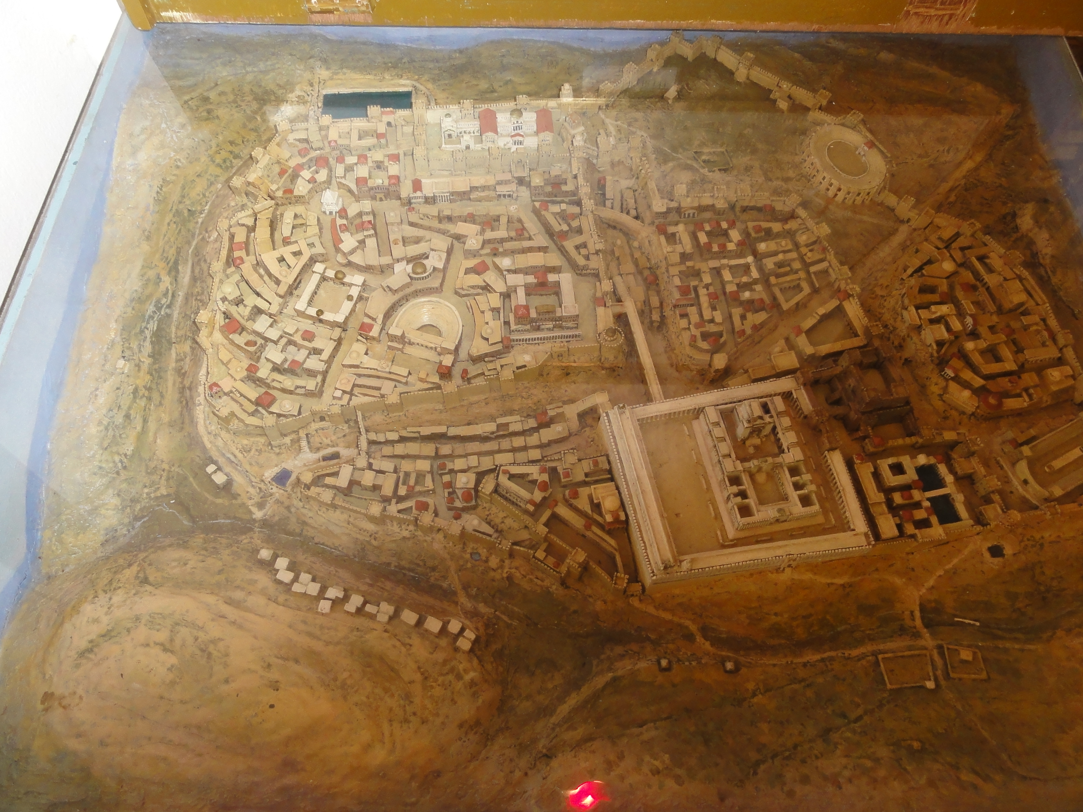 Old city model of Jerusalem.